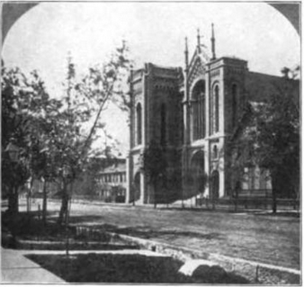 First Presbyterian Church, 1859, Wabash Avenue, near Congress Street, Chicago